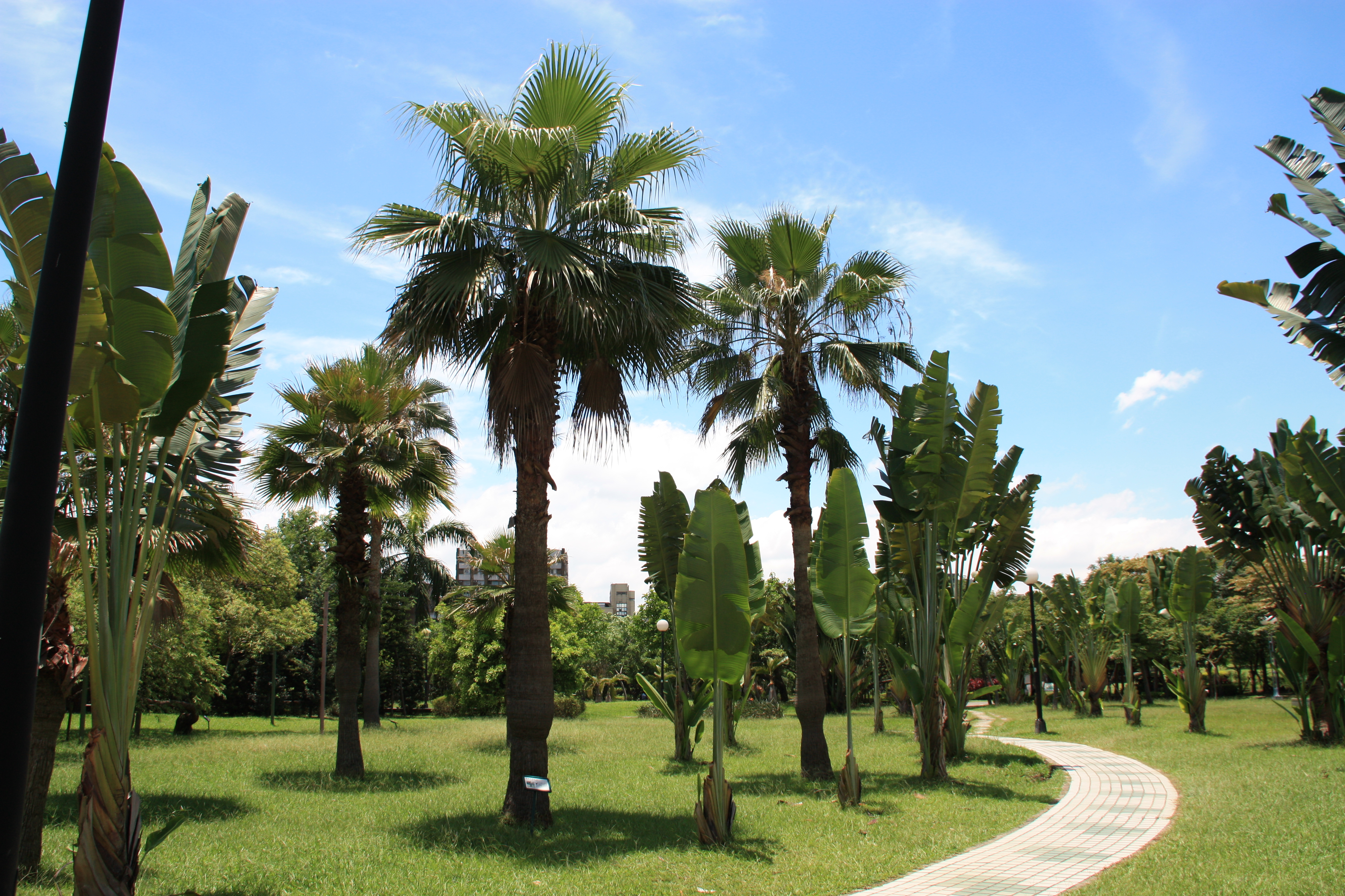 Táiběi Da-an District DàĀn Forest Park Washingtonia filifera